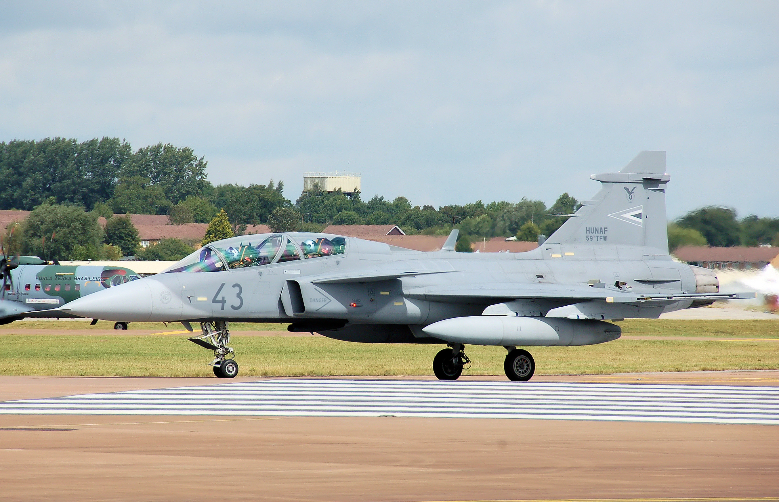 Hungarian Air Force Saab JAS39D Gripen (code 43) starts its takeoff run at the 2009 Royal International Air Tattoo, Fairford, Gloucestershire, England.